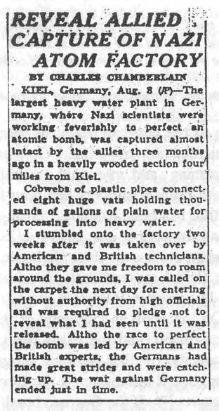 Press reports the seizing of a heavy water plant.